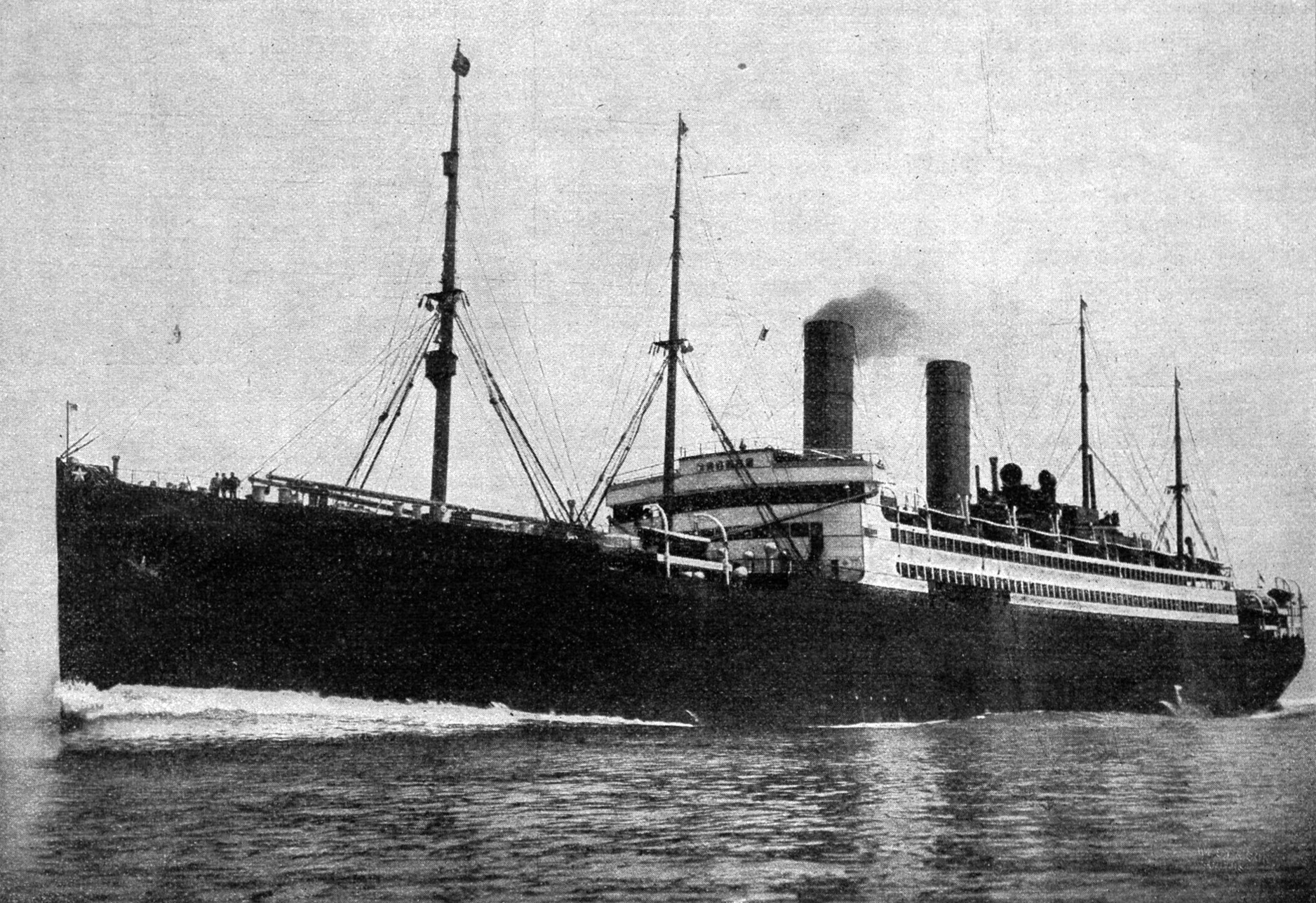 Luxury steamer, George Washington built by the Norddeutsche Lloyd in 1909. The photo by an unknown photographer is from 1909